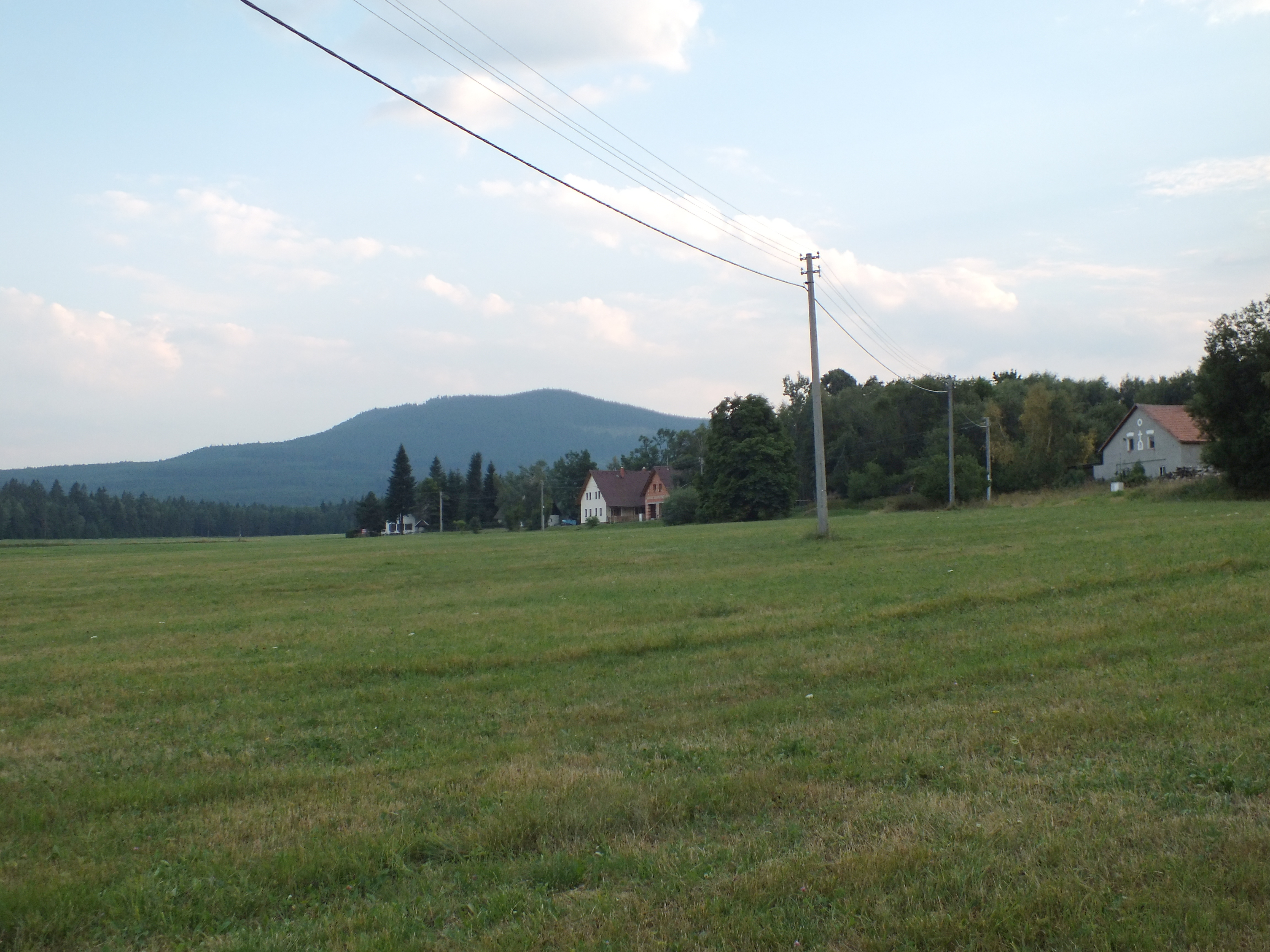 Veselka (part of town Vimperk) - the western part of the settlement with Boubín mountain on the background